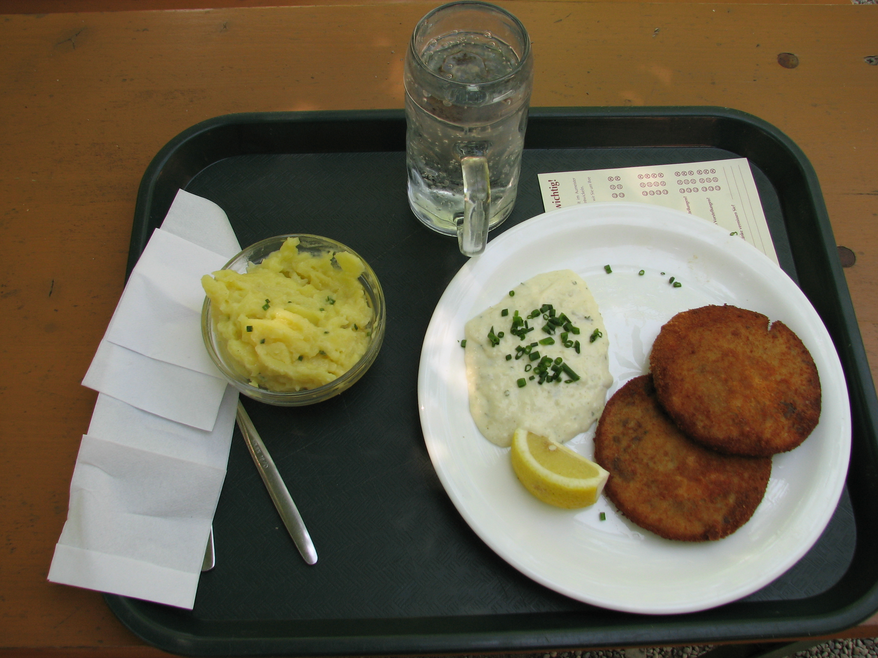 A plate of fried Milzwurst (spleen sausage) at the Aumeister restaurant in Munich.